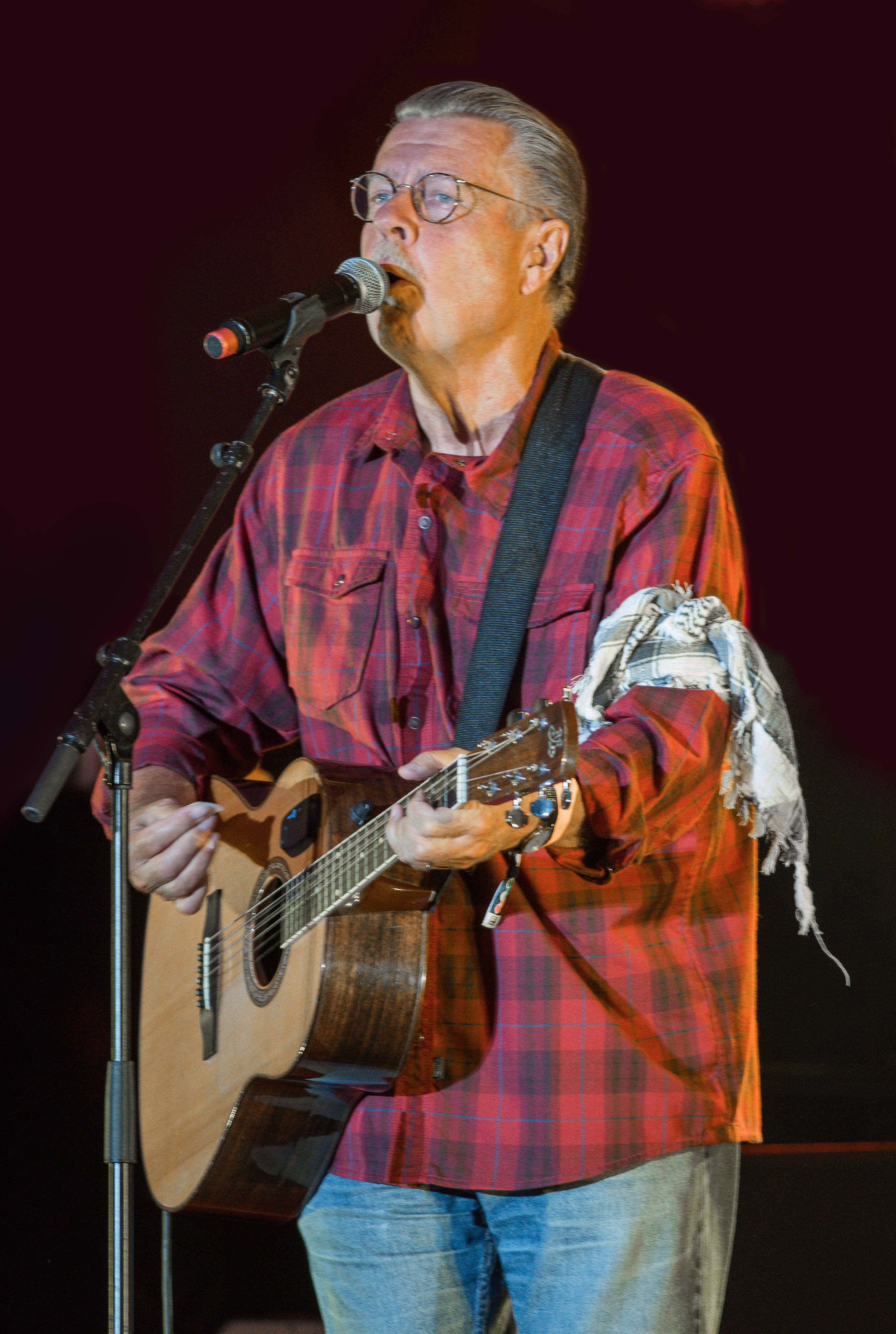 Mikael Wiehe July 2014